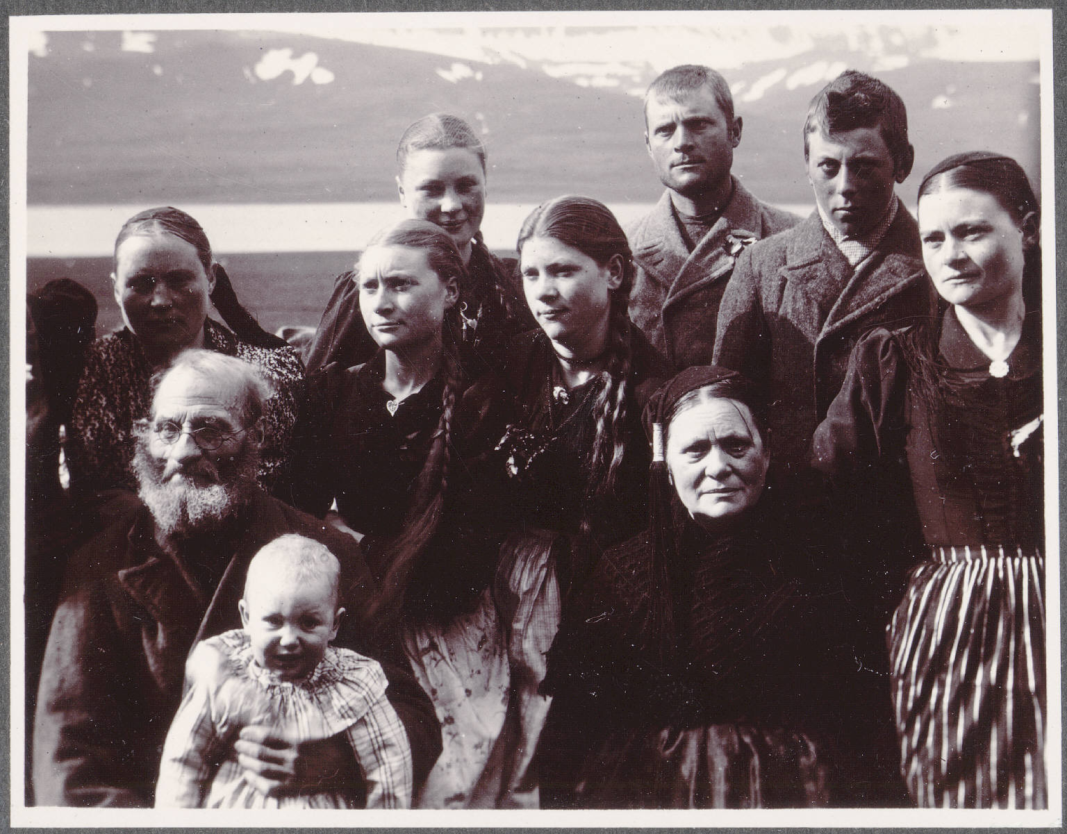 Collection: Icelandic and Faroese Photographs of Frederick W.W. Howell, Cornell University Library Title: Family group at Grund, Skorradalur. Date: ca. 1900 Place: Grund (Borgarfjarðarsýsla, Iceland : Farmstead) Medium: collodion print Repository: Fiske Icelandic Collection, Rare & Manuscript Collections, Cornell University Library Accession: 1923.5.15 URL: Persistent URI: There are no known U.S. copyright restrictions on this image. The digital file is owned by the Cornell Univeristy Library which is making it freely available with the request that, when possible, the Library be credited as its source. We had some help with the geocoding from Web Services by Yahoo!